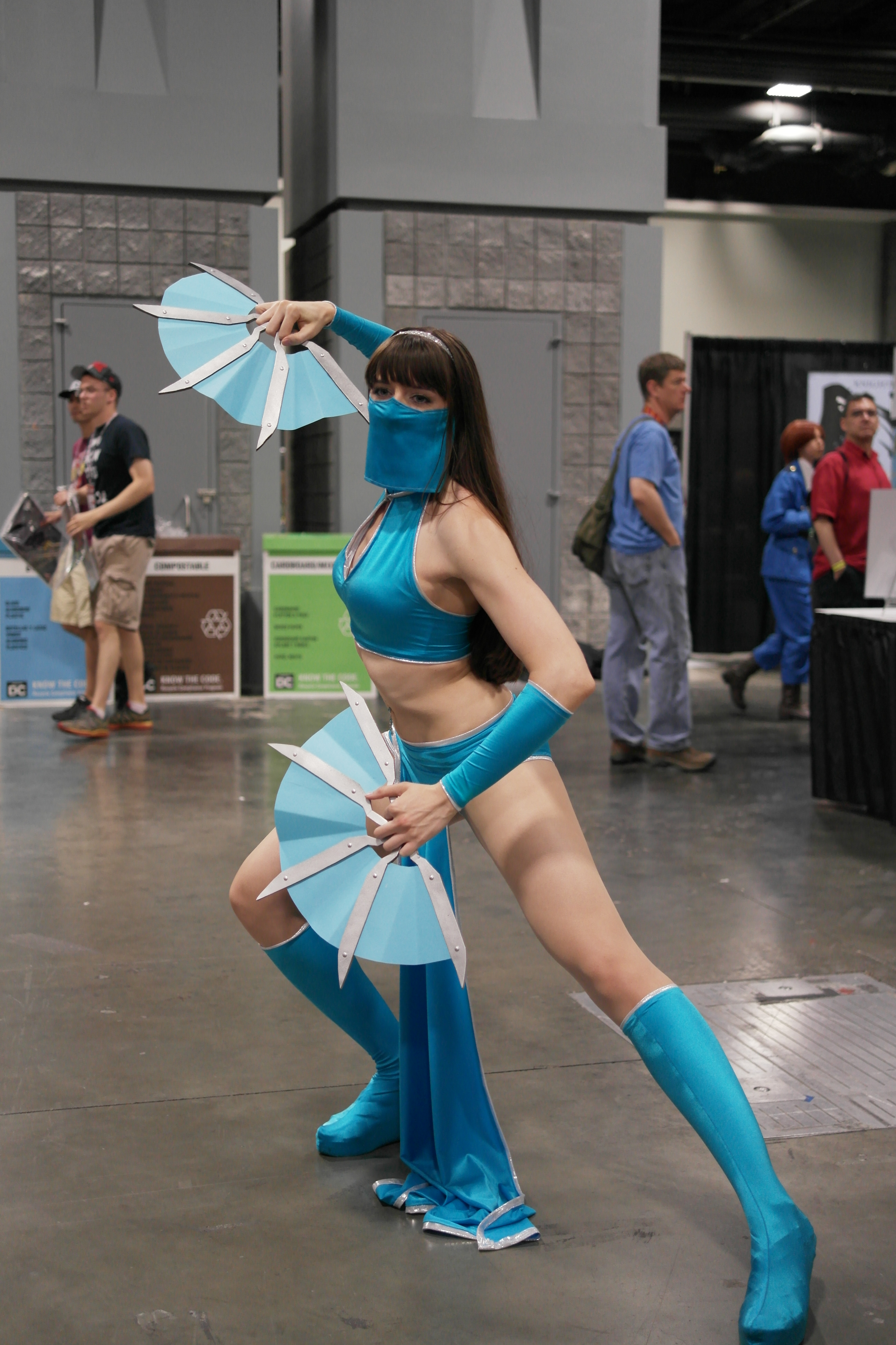 Awesome Con DC 2015